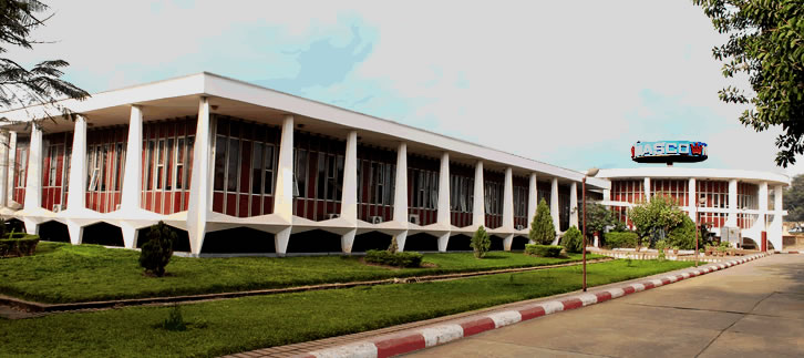 Nasco Corporate Headquarters Building located in Jos, Nigeria. NASCO Group is one of the largest Fast-Moving Consumer Goods (FMCG) companies in the West Africa region and is headquartered in Jos, Nigeria.